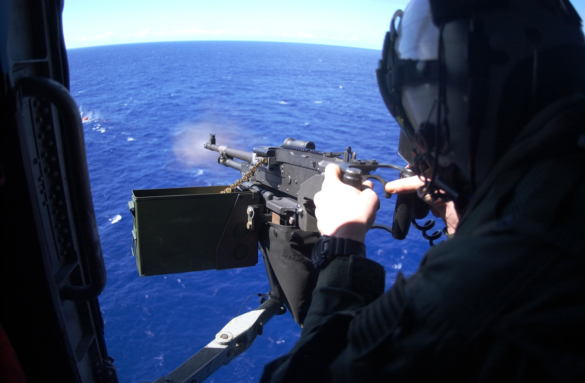 030909-N-0905V-056 Pacific Ocean (Sept. 9, 2003) -- Petty officer 2nd class Landon Randal fires an M240 machine gun from a SH-60F Sea Hawk assigned to the "Eightballers" of Helicopter Anti-Submarine Squadron Eight (HS-8) during a training exercise. Carl Vinson is scheduled to pull into Naval Air Station North Island, San Diego, California, before returning to its homeport in Bremerton, Washington. The Carl Vinson Carrier Strike Group (CSG) is returning home following an eight-month deployment to the Western Pacific in support of Operation Iraqi Freedom.